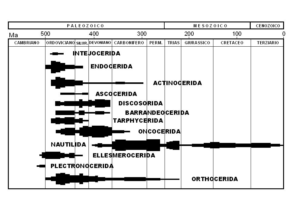 stratigraphic distribution of Nautiloids